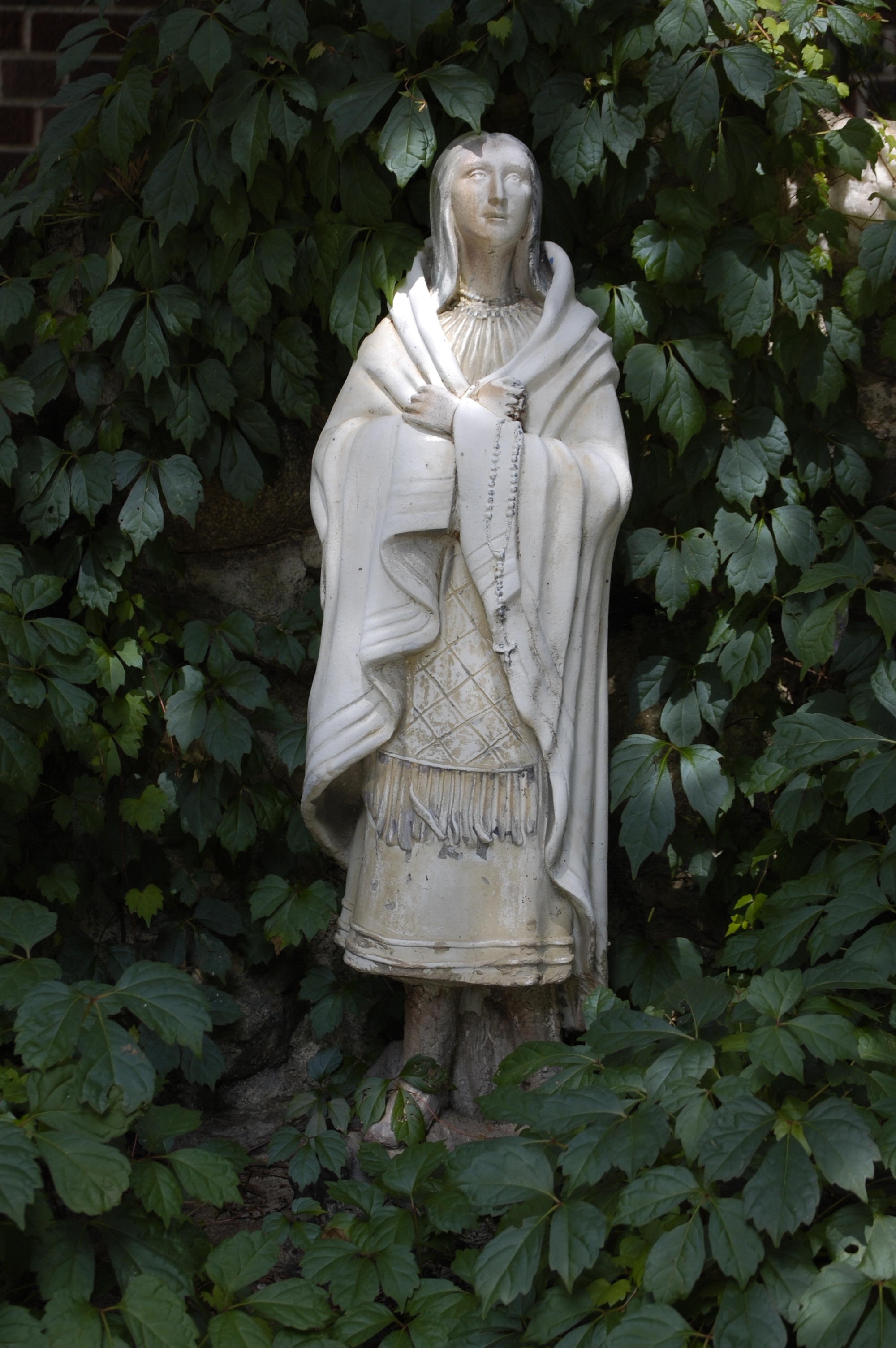 "Lily of the Mohawks" Statue/Shrine at Our Lady of Czestochowa Roman Catholic Church, Turners Falls, MA